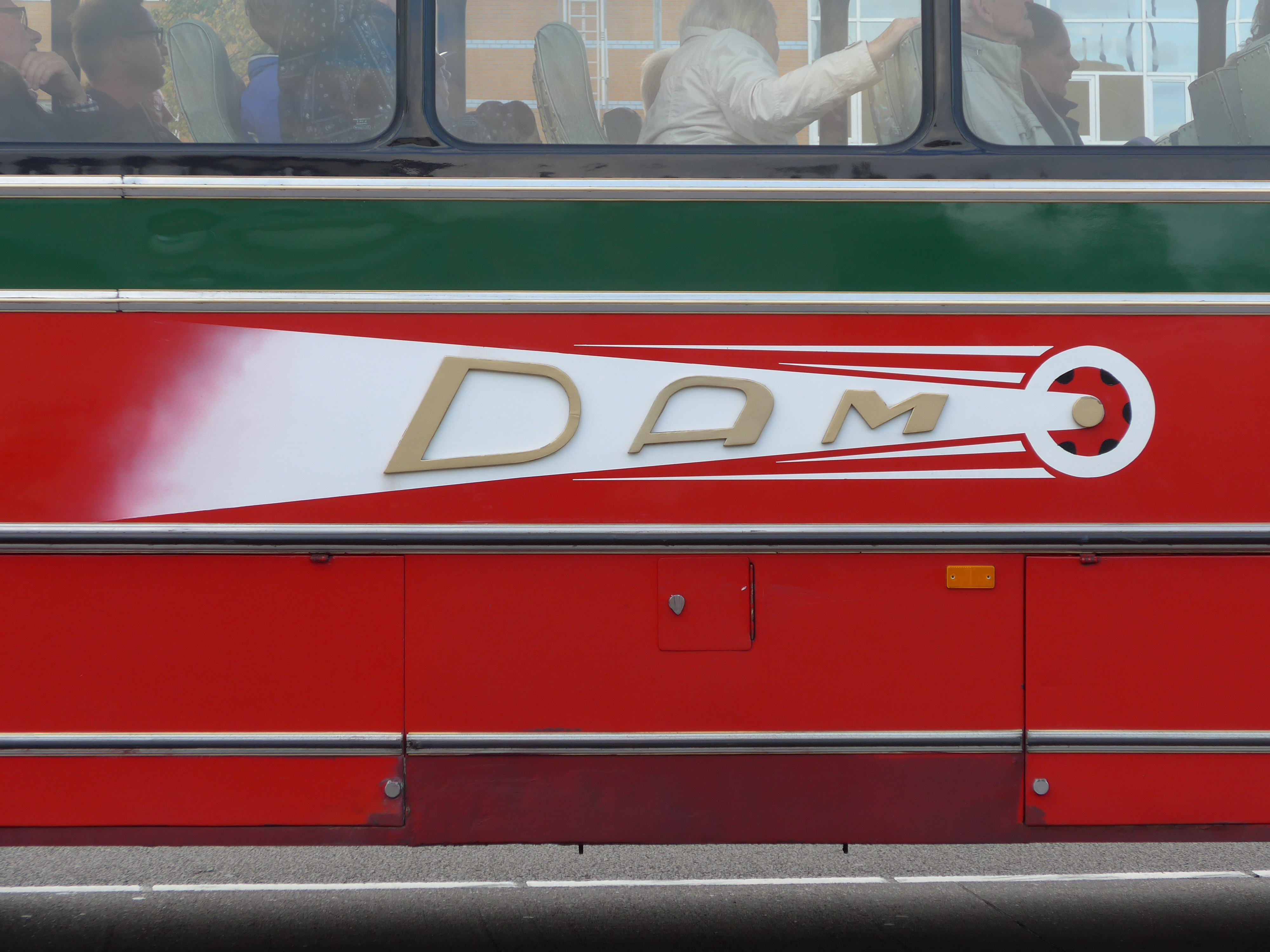 Logo of the former Damster Auto-Maatschappij (DAM).